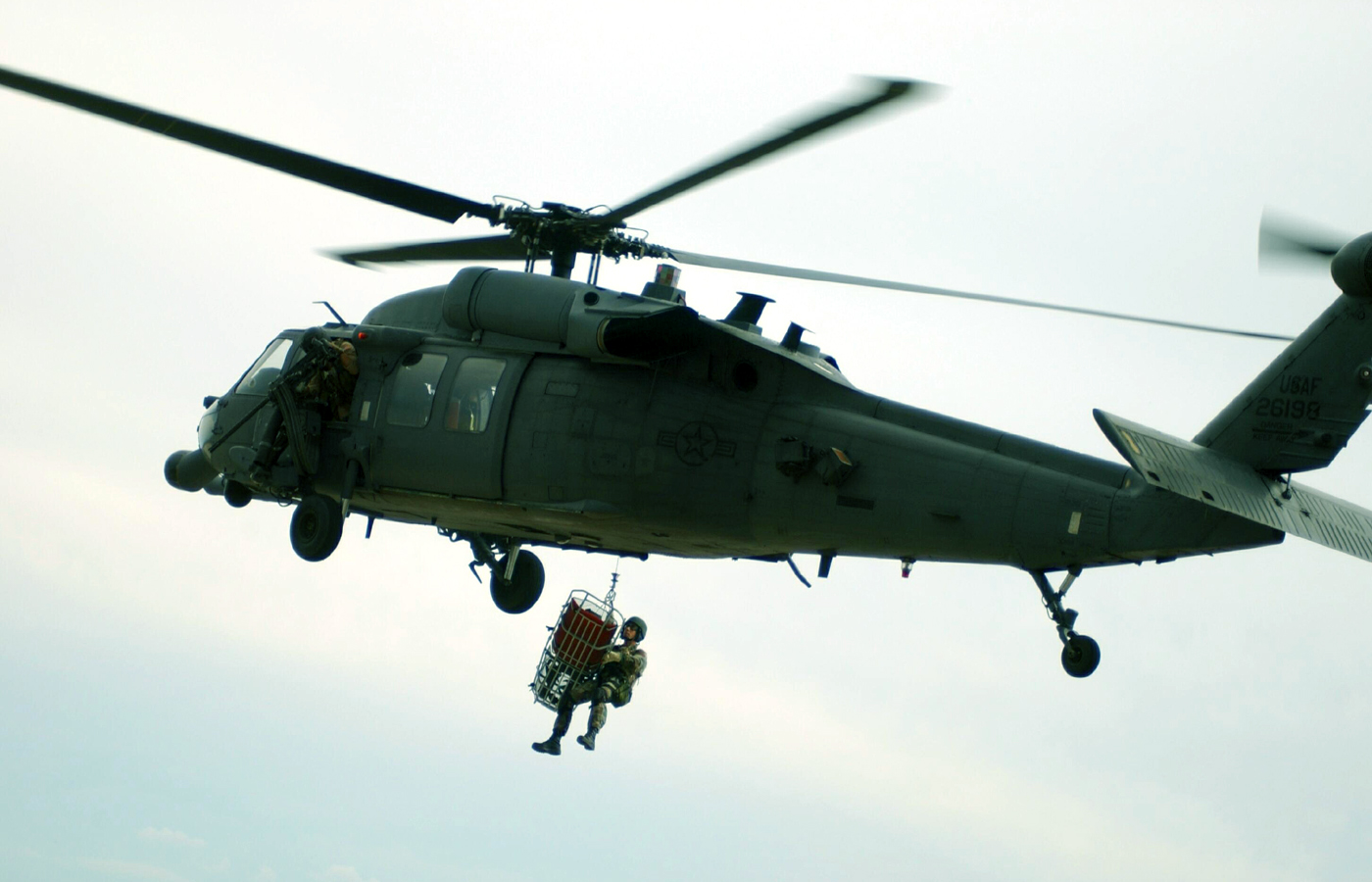 A pararescueman from the 48th Rescue Squadron escorts a "patient" being pulled up into an HH-60 Pave Hawk during rescue training here Aug. 16.